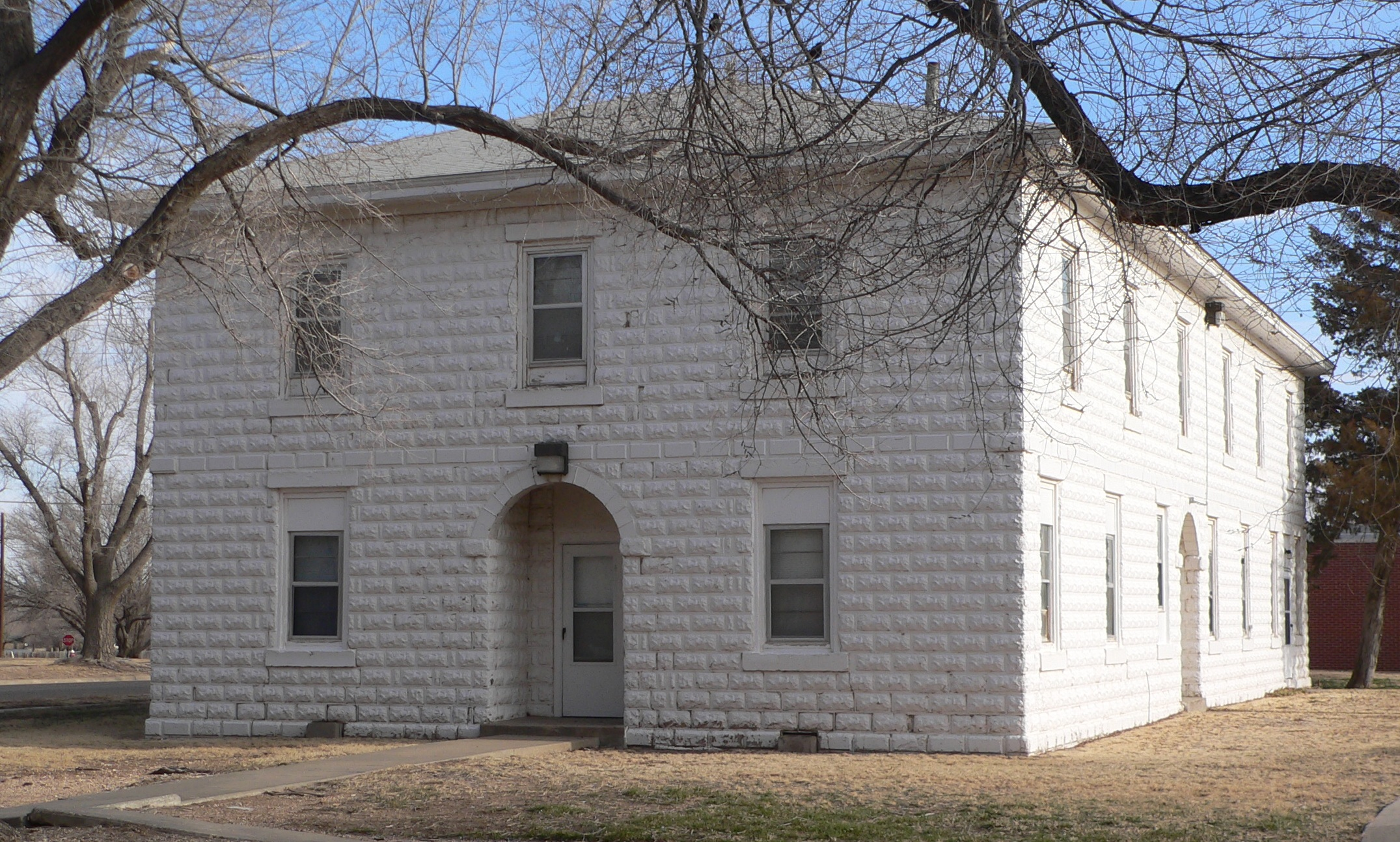 Franklin Hall, located at the east corner of Sewell Street and College Avenue in Goodwell, Oklahoma. View is from the southwest. (The long axis of the building parallels Sewell, which runs northeast-southwest.)